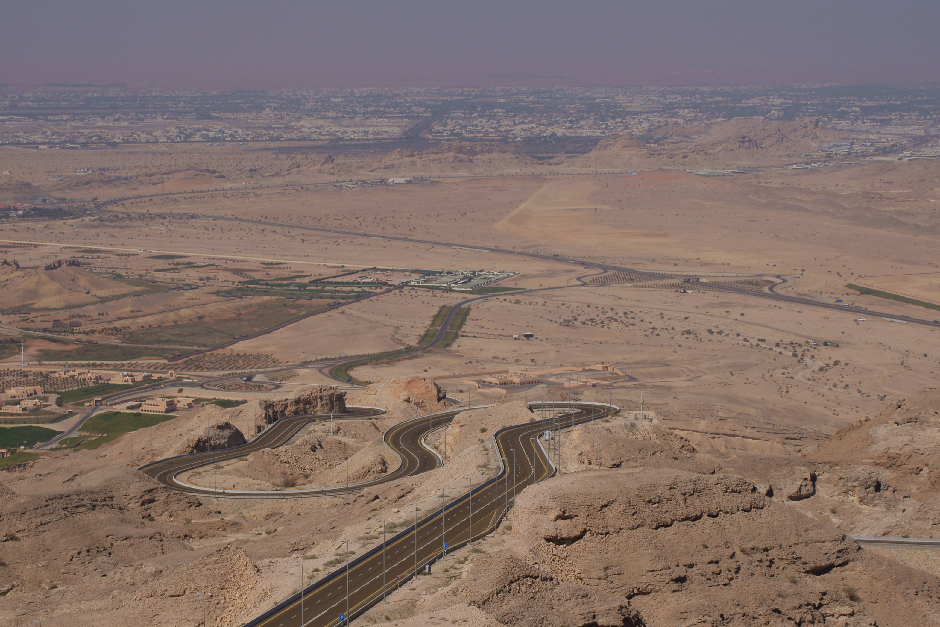 Al Ain (background) with the road to Jebel Hafeet (front)